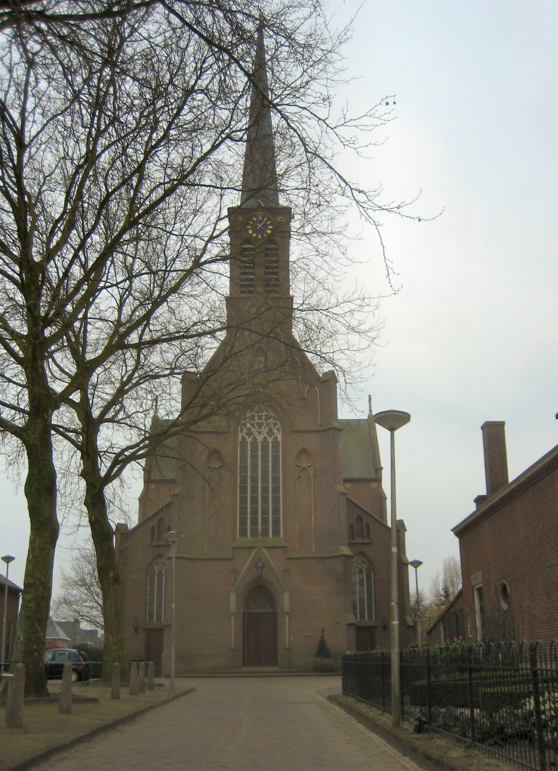 Church Elshout, Netherlands